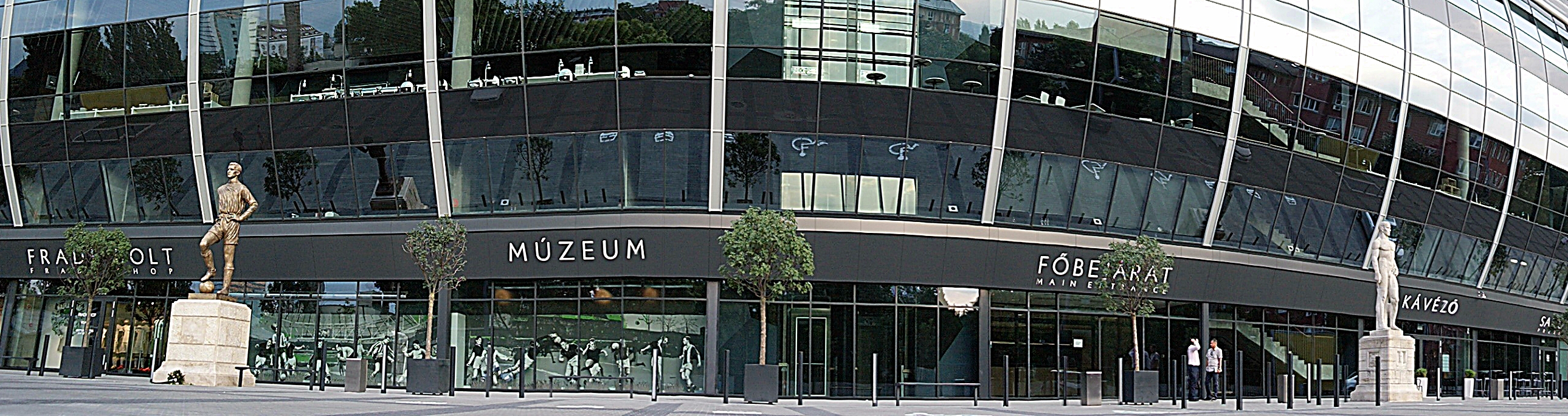 Main entrance of Groupama Arena in Budapest